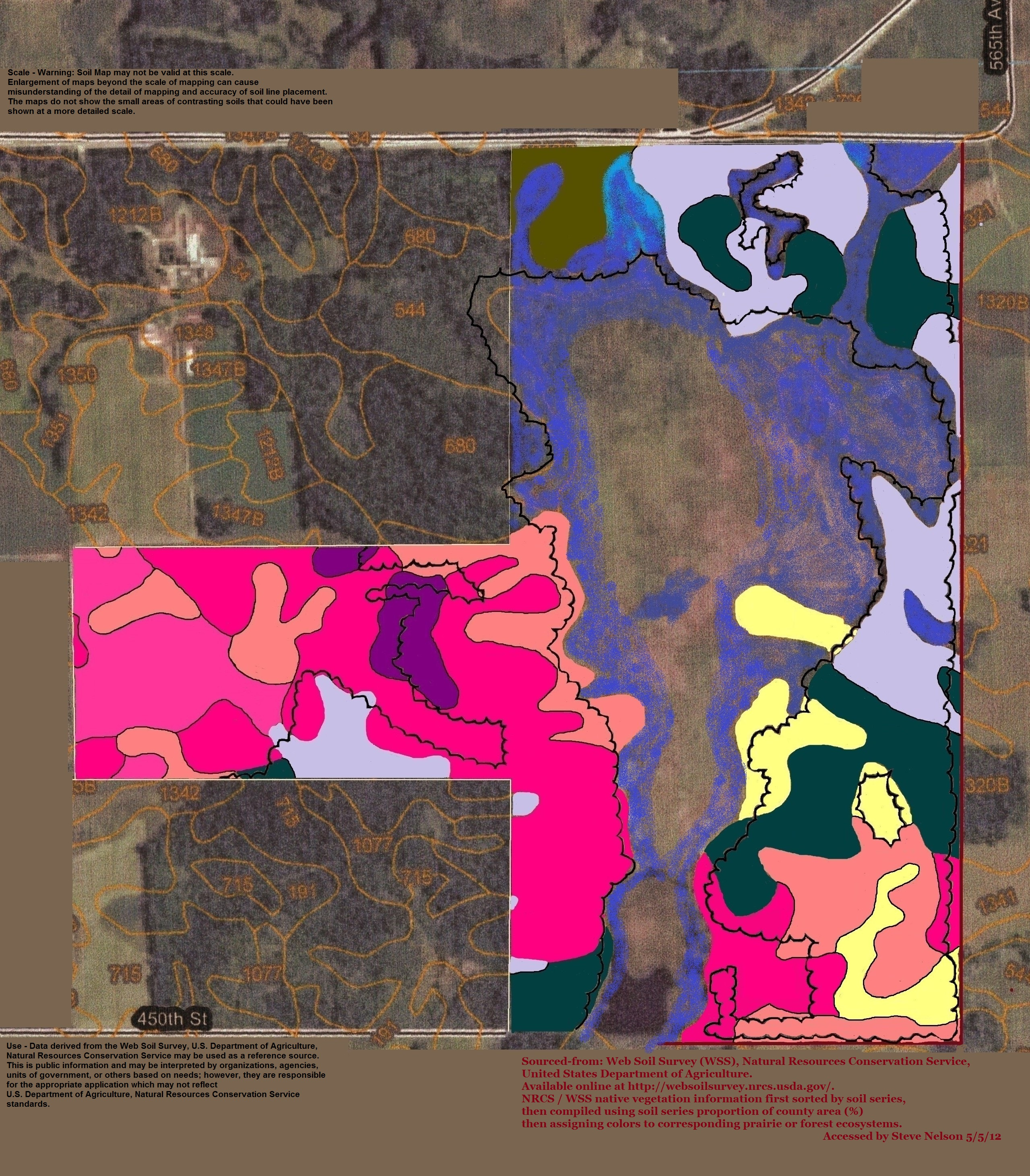 Map shows native vegetation based on soils in the Bluff Creek State Wildlife Management Area in Otter Tail County Minnesota.